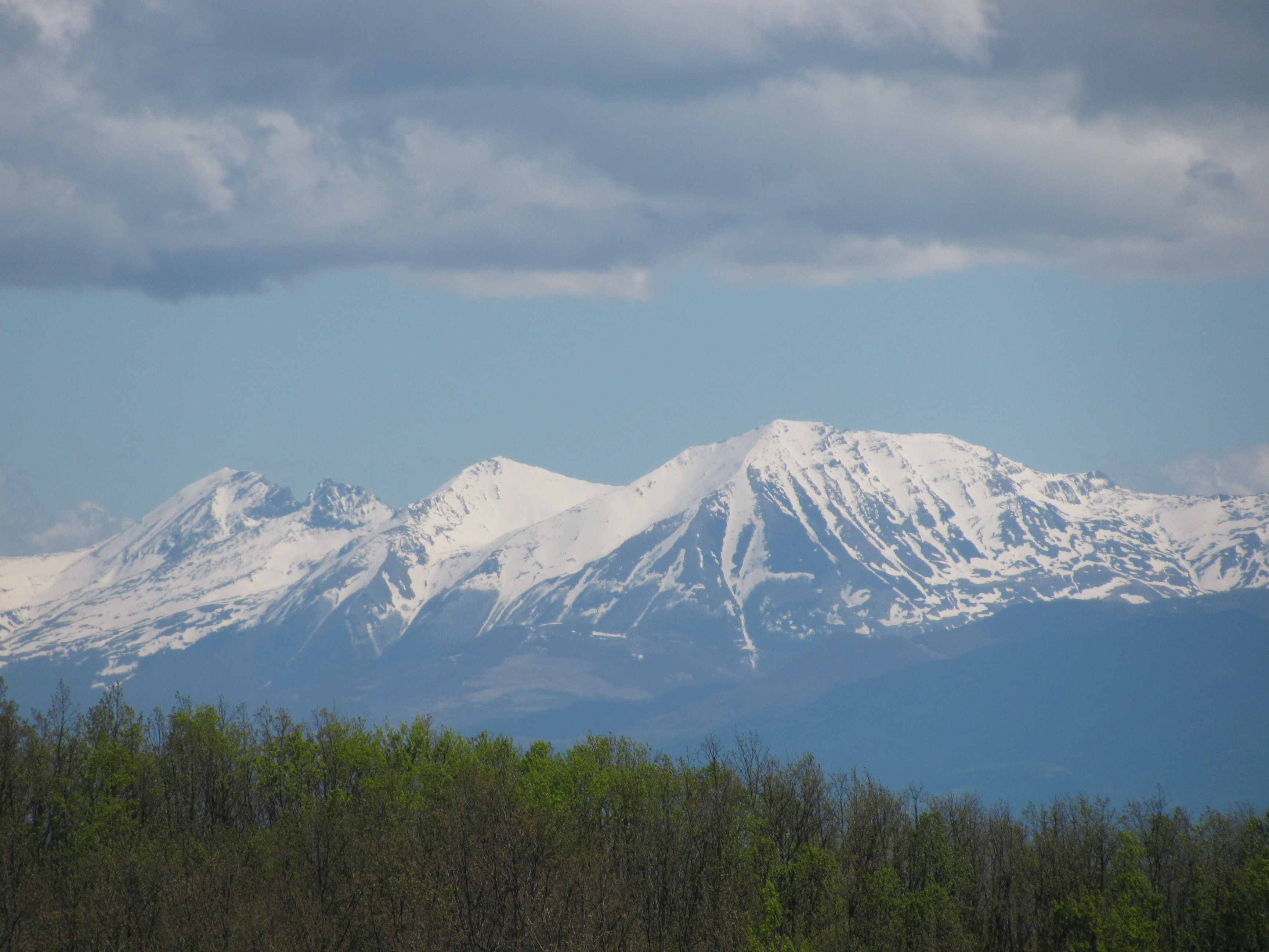 Sharr mountain range from Radoniq